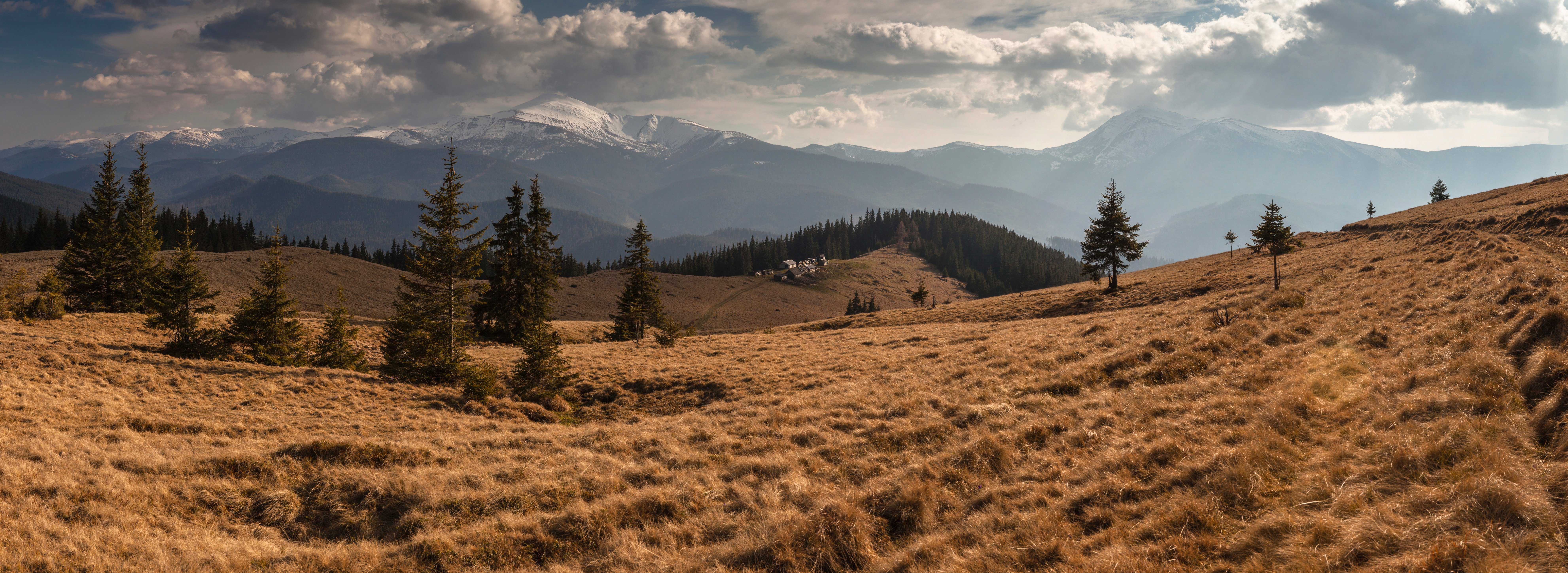 Polonina Hryhorivka, View of Hoverla and Petros. Carpathian National Park, Ivano-Frankivsk Oblast & Carpathian Biosphere Reserve, Zakarpattia Oblast